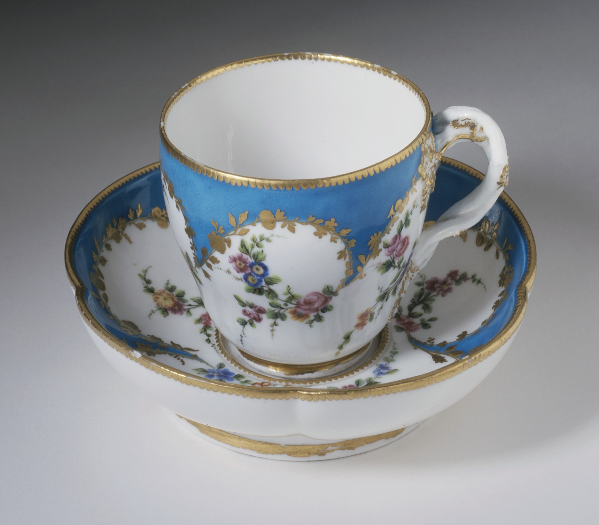 France, circa 1753 Furnishings; Serviceware Soft-paste porcelain with glaze and enamel William Randolph Hearst Collection (47.35.6a-b) Decorative Arts and Design Currently on public view: Hammer Building, floor 3